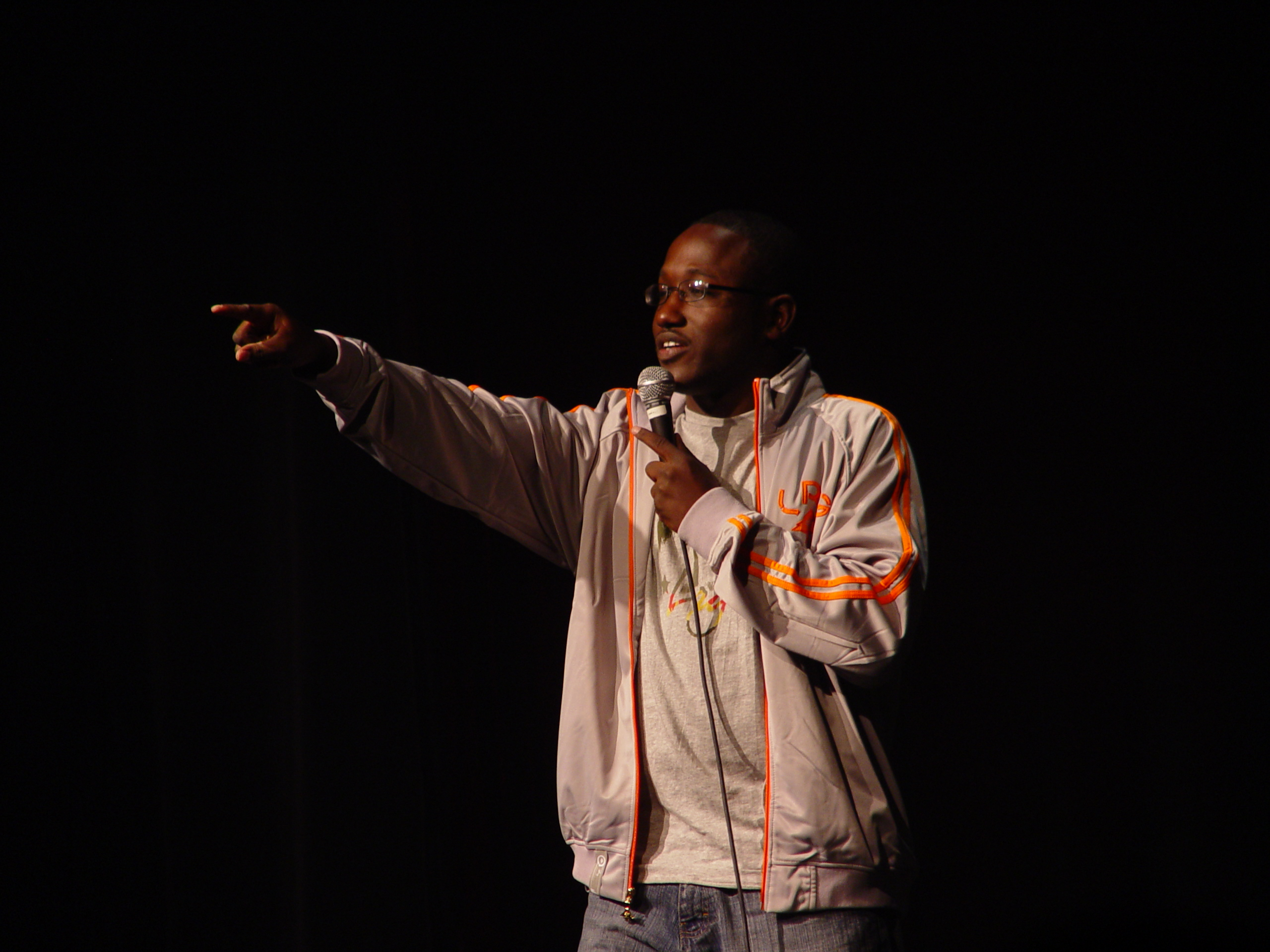 Time Out Chicago's "Chicago's Funniest Person" Competition. Hannibal won. Note: Hannibal Buress won the contest per source: McCormick, Moira (May 2, 2008). "Comedian Hannibal Buress is on his way". Chicago Tribune. Archived from the original on October 14, 2013. Retrieved on November 16, 2014.